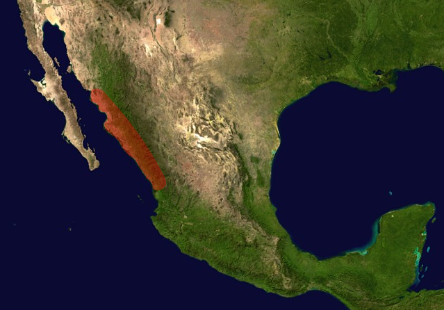 Distribution of Brachypelma emilia in Mexico.